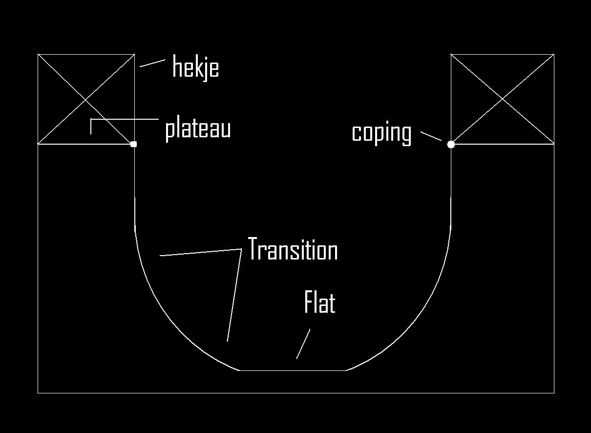 Parts of a Half-pipe; Own drawing; 'hekje' means little fence